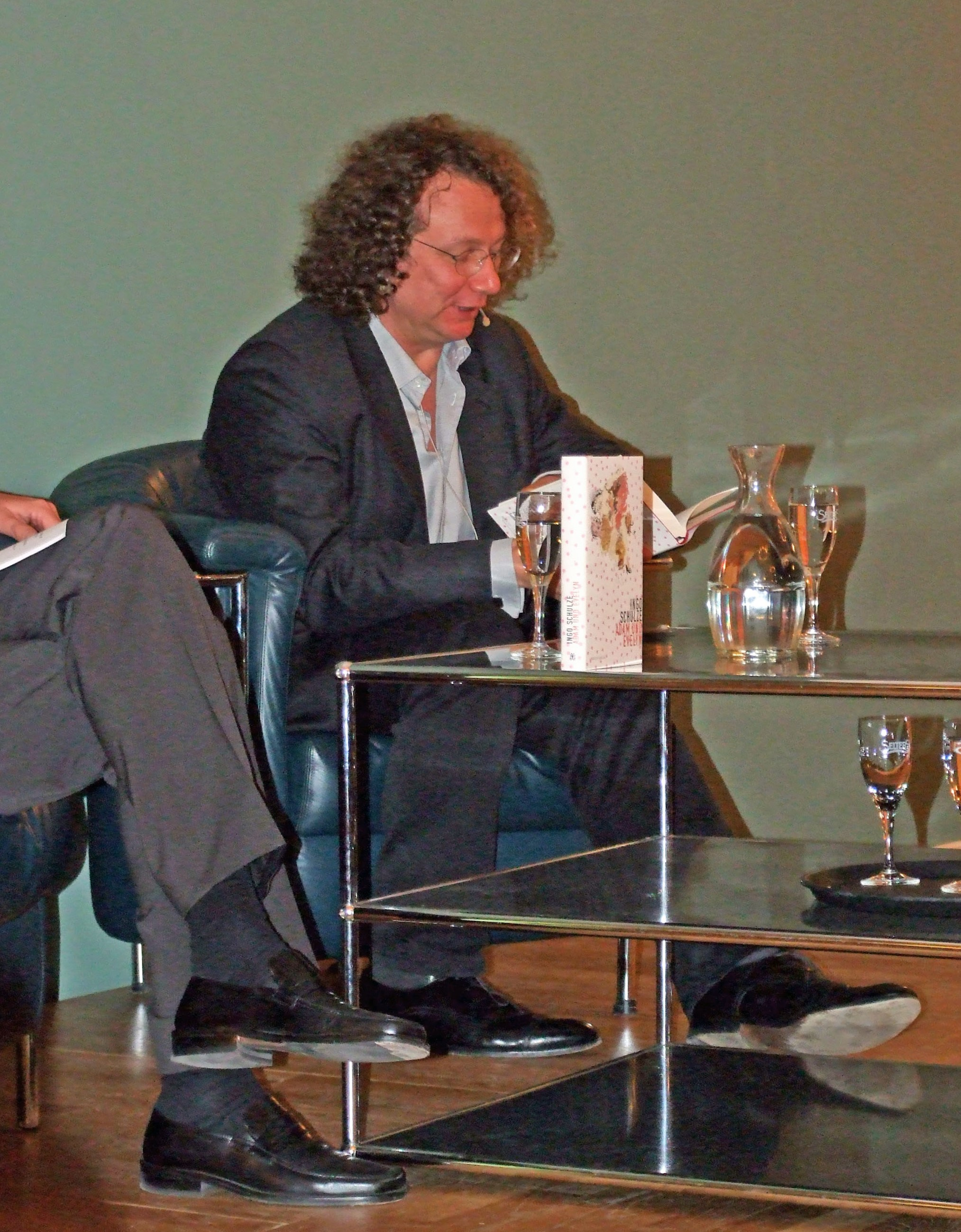 Ingo Schulze read a part of Adam and Evelyn at Literaturhaus Frankfurt.